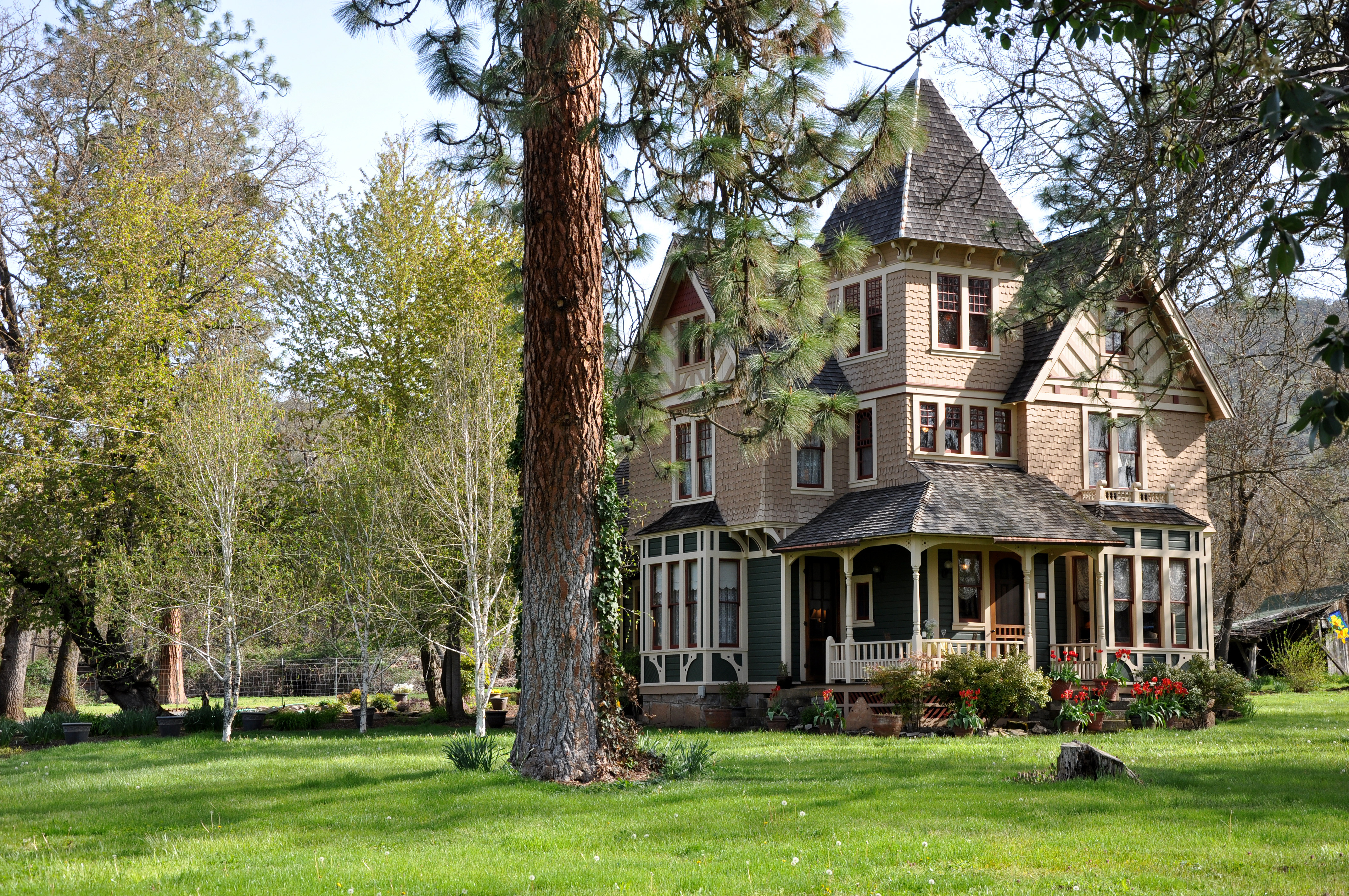 Chavner Family House in Gold Hill in the U.S. state of Oregon. The house is on the National Register of Historic Places.